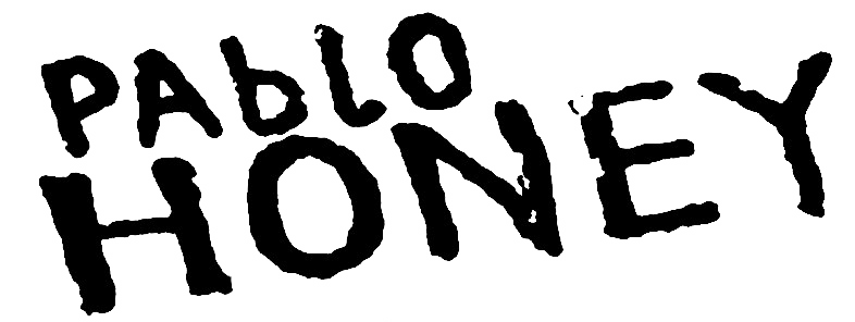 Pablo Honey Logo.